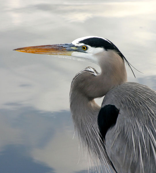 Great Blue Heron, Phalacrocorax auritus, juvenile. Location: Anhinga Trail, Everglades National Park, Florida, United States